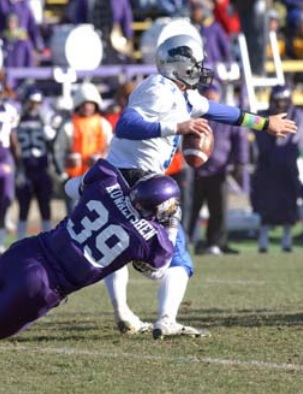 Jon Kowalyshen and the Leatherneck defense held Eastern Illinois (and current Dallas Cowboys Pro Bowl) quarterback Tony Romo in check all game during a 48-9 rout in the first round of the 2002 NCAA Division I playoffs.